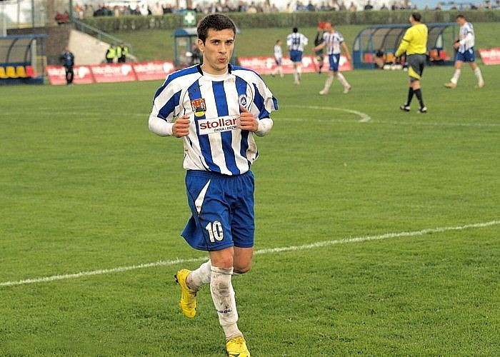 Wigry Suwałki against Sokol - season 09/10. Wigry's player - Maciej Makuszewski.